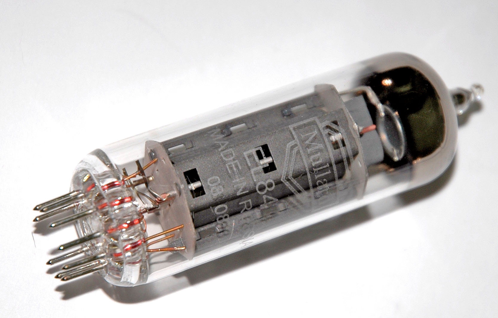 A current production of Mullard EL84 vacuum tube. The new Mullard production factory is in Russia and is no longer related to the British Mullard factories.